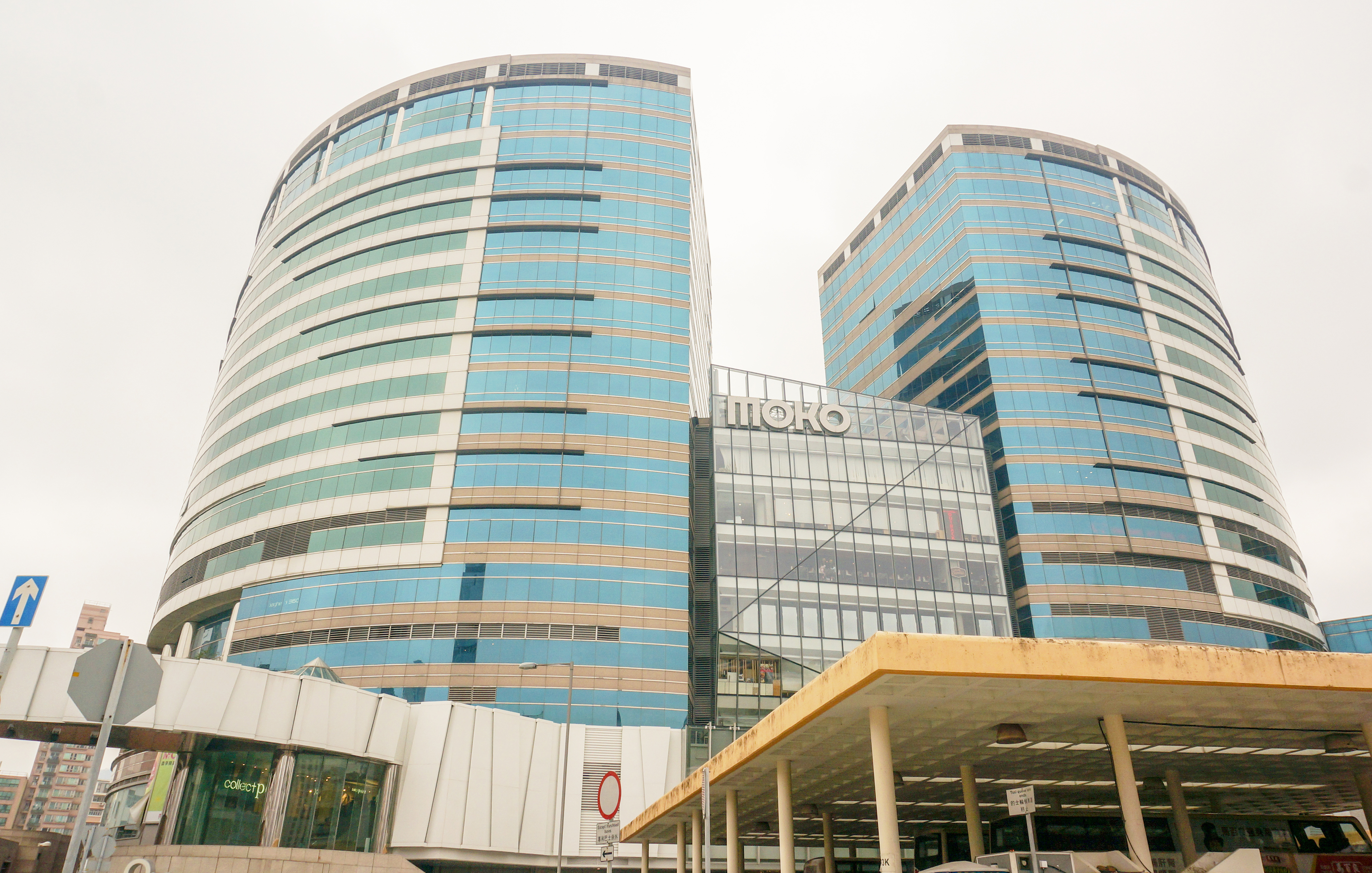 MOKO, formerly known as Grand Century Place